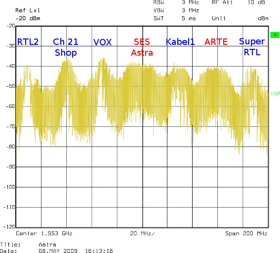 Section of the spectrum of a satellite television signal. Astra 1F, horizontal polarization, 1453-1653MHz (after LNB), showing 7 channels. Blue channels are analog (FM), red are digital (8-PSK).